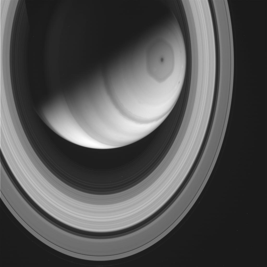 "W00087363.jpg was taken on March 22, 2014 and received on Earth March 23, 2014. The camera was pointing toward SATURN at approximately 1,822,505 miles (2,933,037 kilometers) away, and the image was taken using the MT2 and CL2 filters. This image has not been validated or calibrated. A validated/calibrated image will be archived with the NASA Planetary Data System in 2015. "